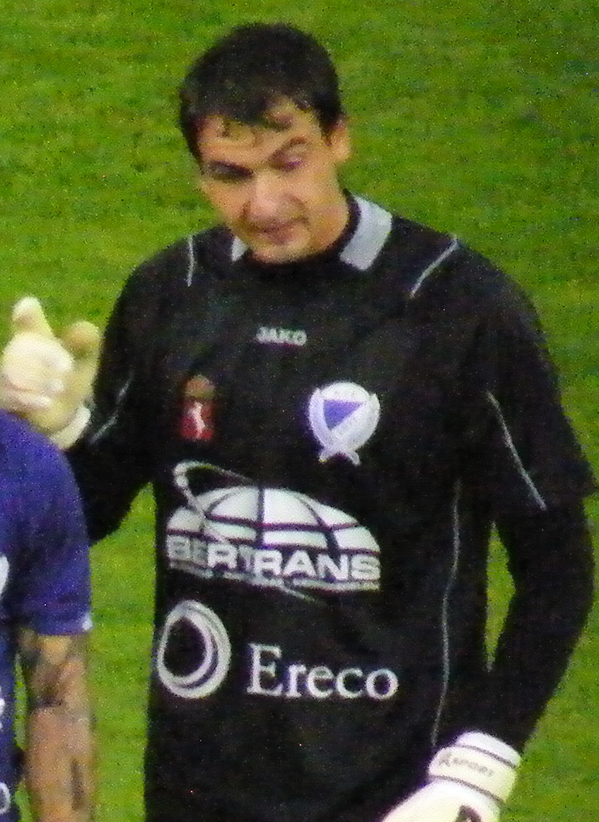 Ladislav Rybánsky (Ribánszki László) Hungarian football player from Slovakia